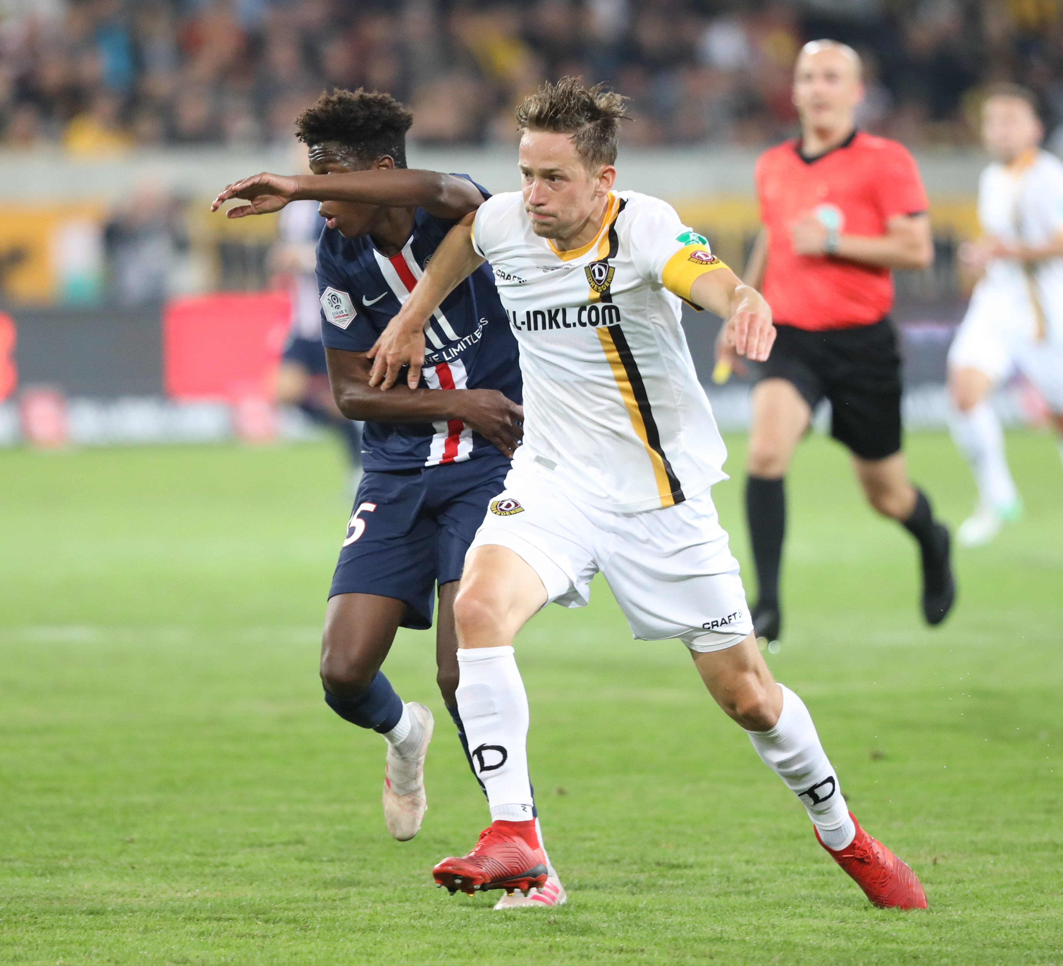 Test game, 17th July 2019: SG Dynamo Dresden vs. Paris Saint-Germain 1:6 (0:3)